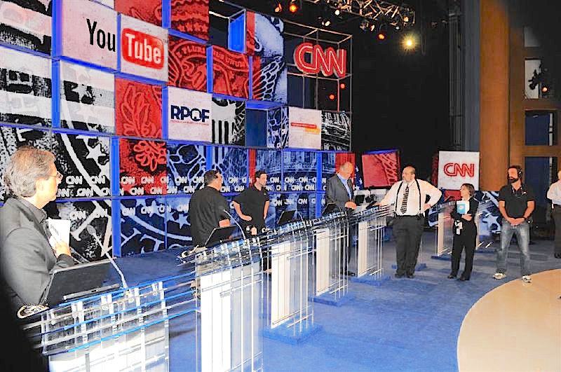 the CNN-Youtube Republican DebateFred checks out the stage on the afternoon before the debate